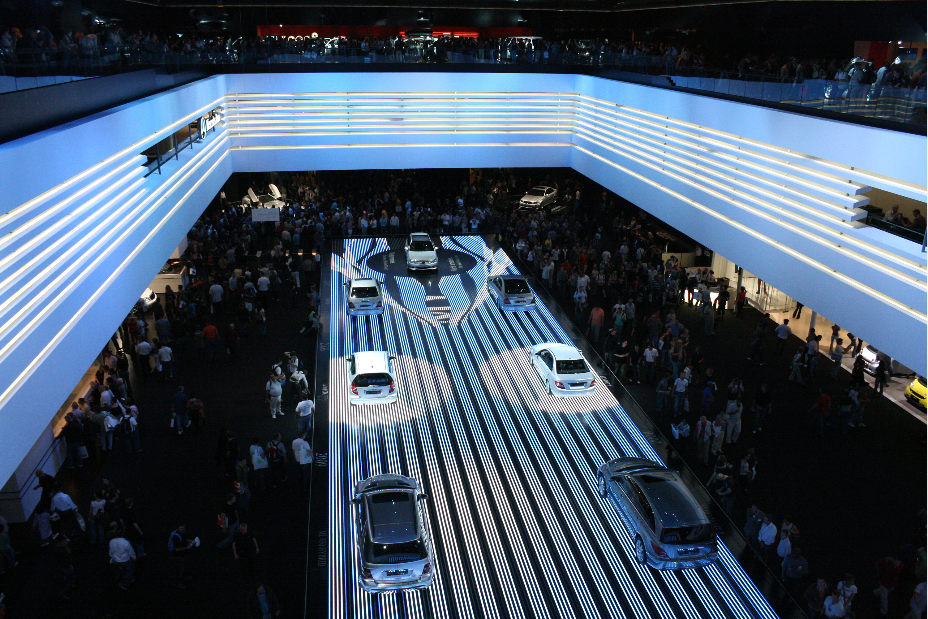 Mercedes-Benz at International Motor Show 2007 in Frankfurt, Germany